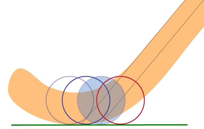 Illustration of ball stopping and hitting poitions with 'English' style hockey stick.